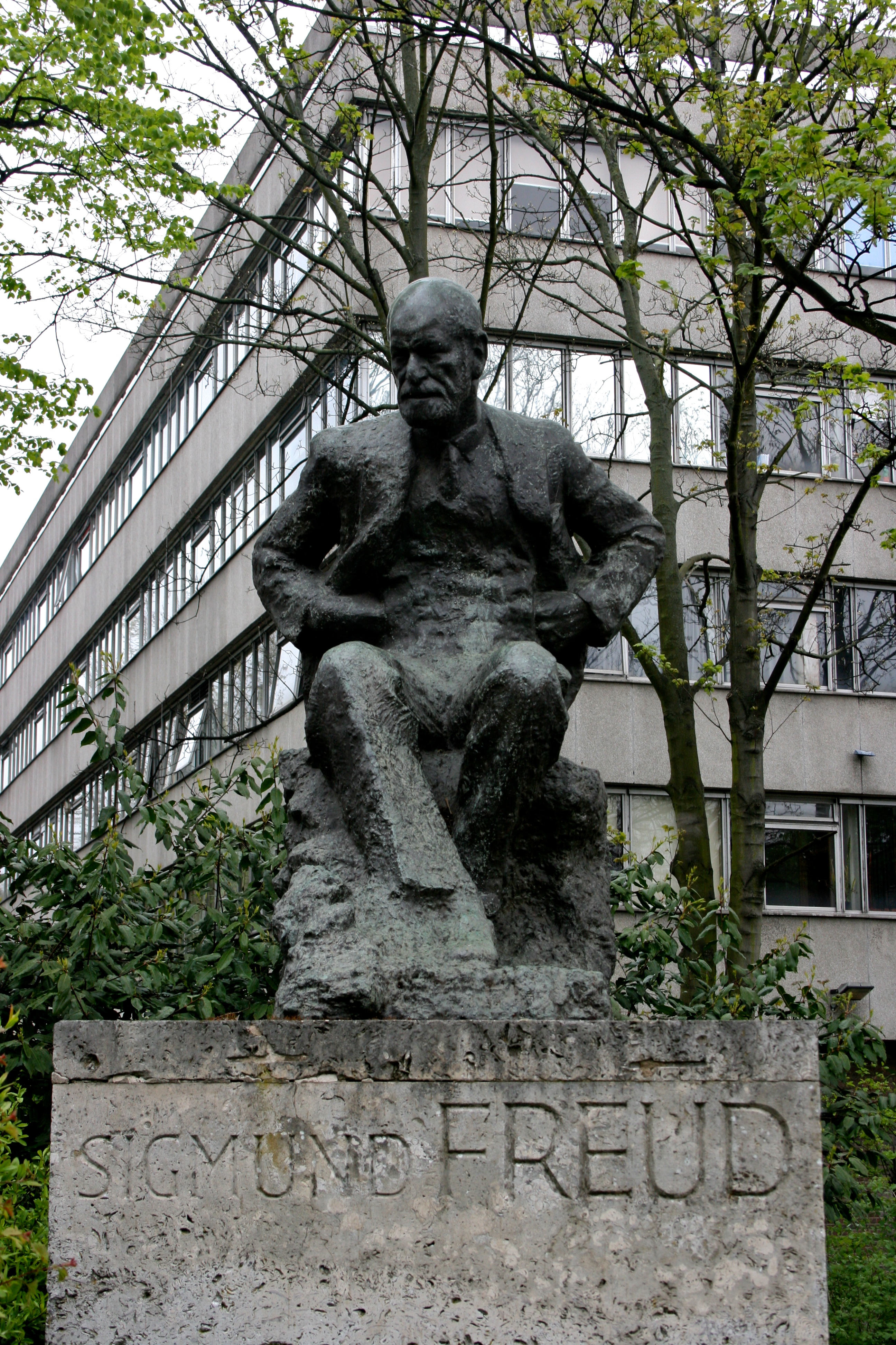 Statue of Sigmund Freud in London, with the Tavistock Clinic in the background.